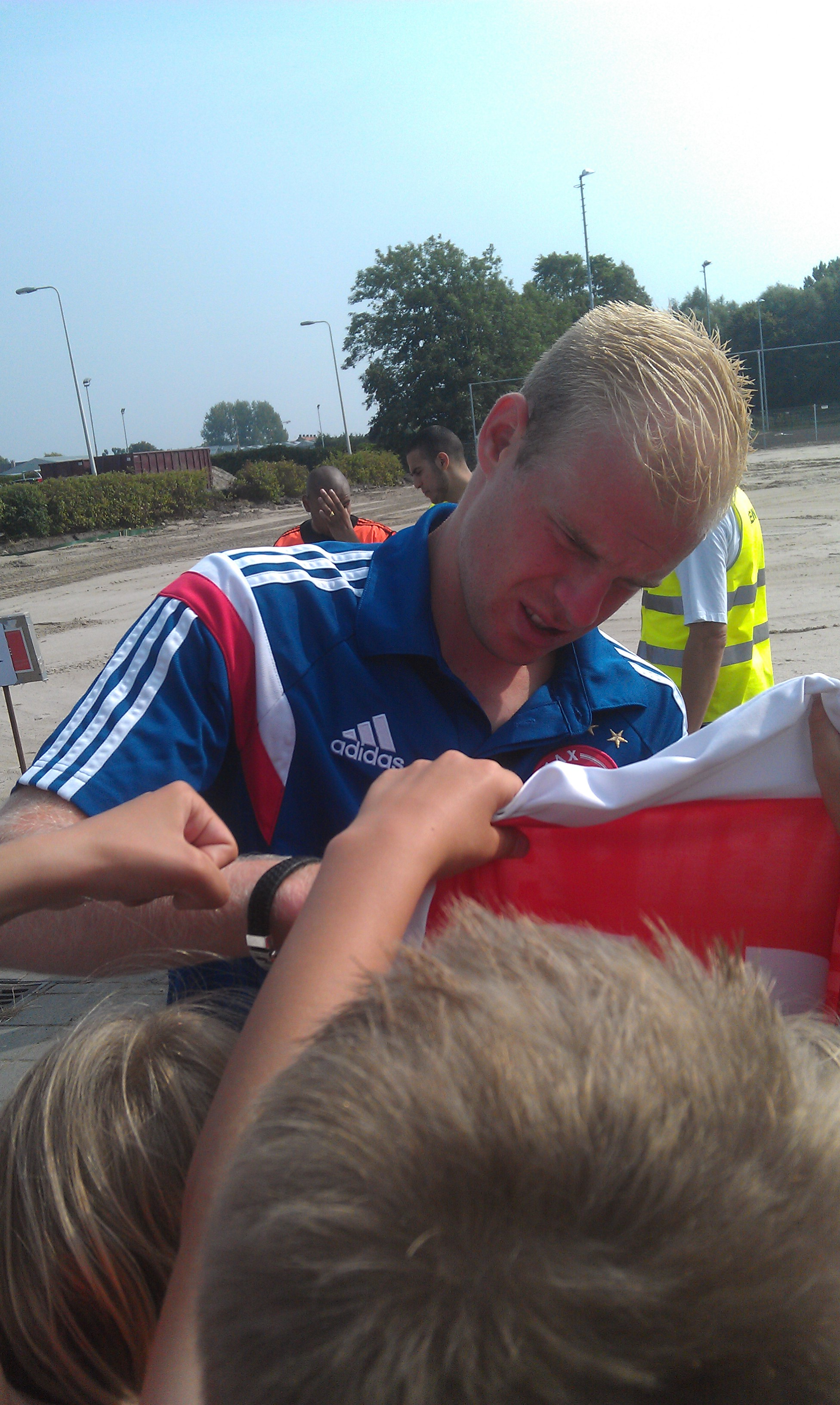 Davy Klaassen signing autographs after a friendly match against AaB in Rijnsburg